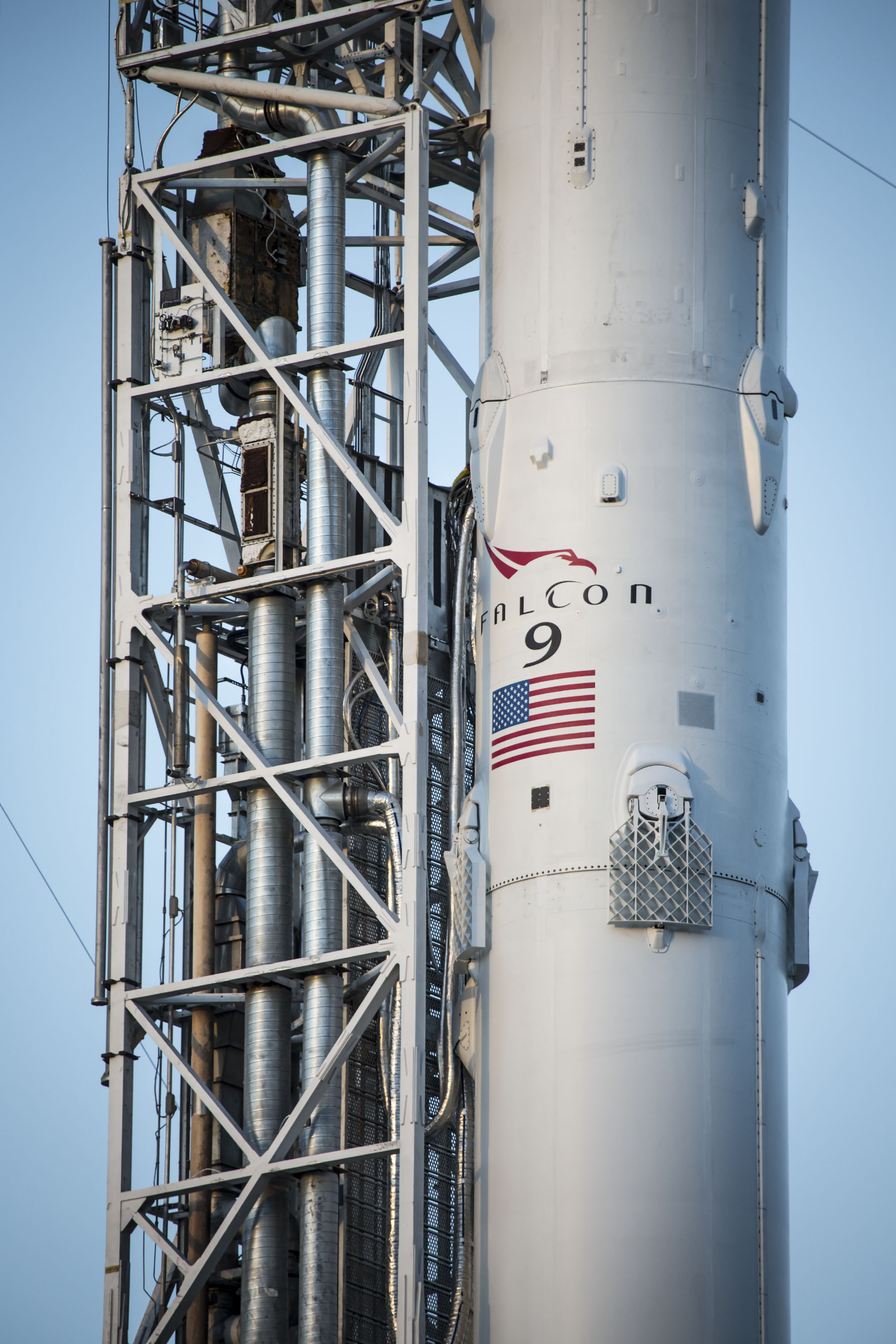 Close up of undeployed first-generation grid fins on the top of the first stage booster of Falcon 9 Flight 15. Just before sunset at 6:03pm ET on Wednesday, Feb. 11th, Falcon 9 lifted off from SpaceX’s Launch Complex 40 at Cape Canaveral Air Force Station, Fla. carrying the Deep Space Climate Observatory (DSCOVR) satellite on SpaceX’s first deep space mission. The grid fins were tested--for the first time on this flight--in a controlled-descent test of the first-stage booster that followed stage separation of the second stage.